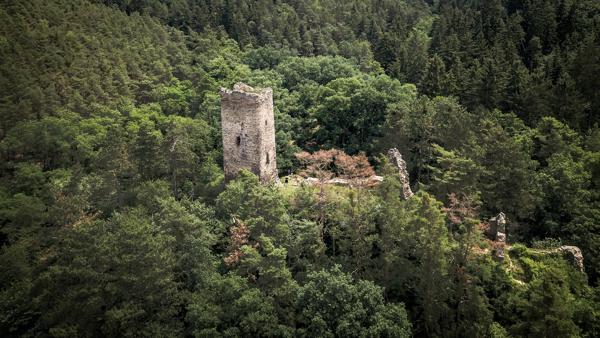 Aerial photo of castle Libstejn. Mavic Pro.